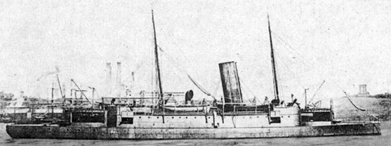 Chinese cruiser Chaoyong